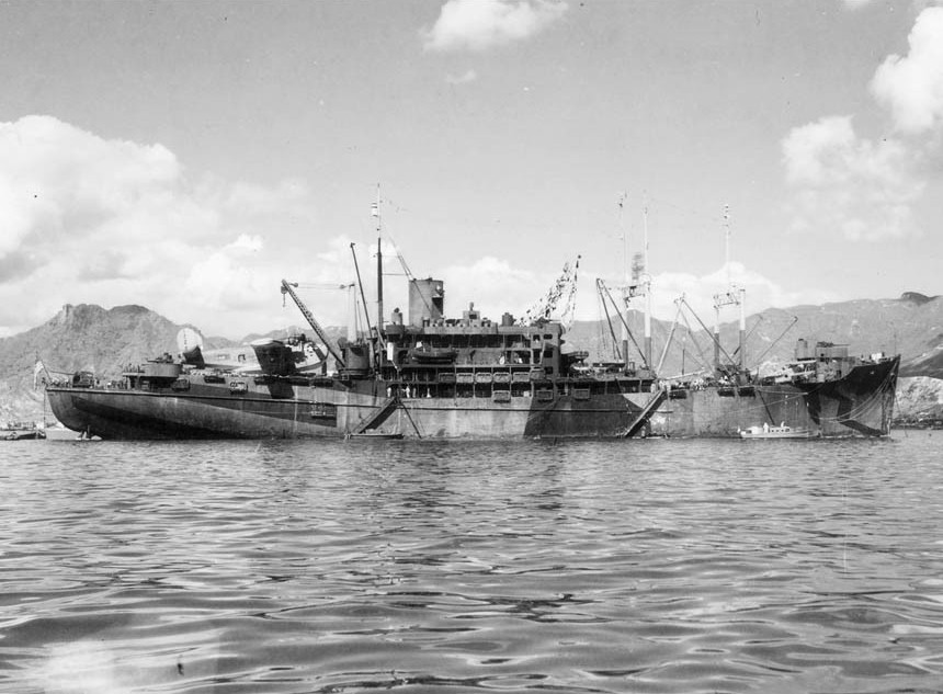 Seaplane tender USS Kenneth Whiting (AV-14) at anchor at an unknown location. She is painted in camouflage scheme Measure 32/8x and has a PB2Y "Coronado" on her after deck.